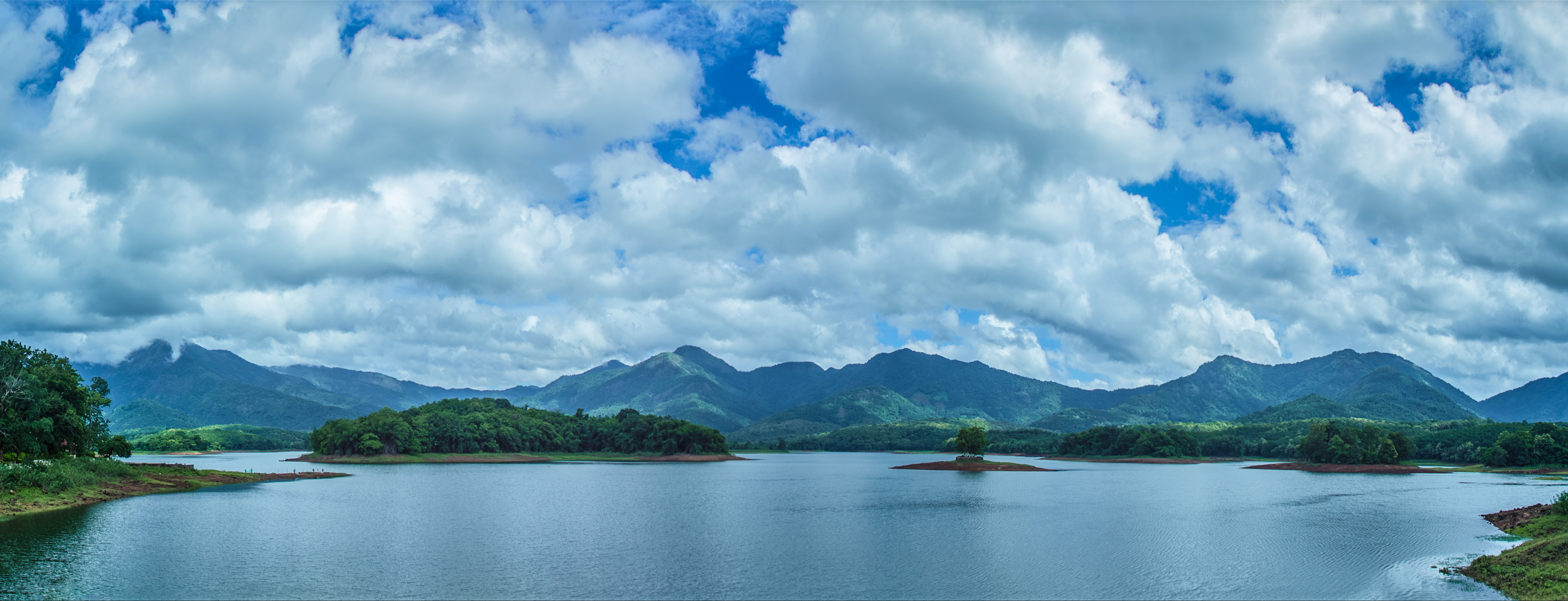 Panorama view - The Clouds, The Mountains & The Waters